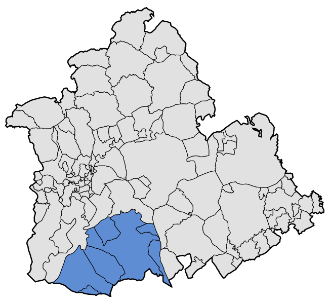 Map of Bajo Guadalquivir, region of province of Sevilla, Spain